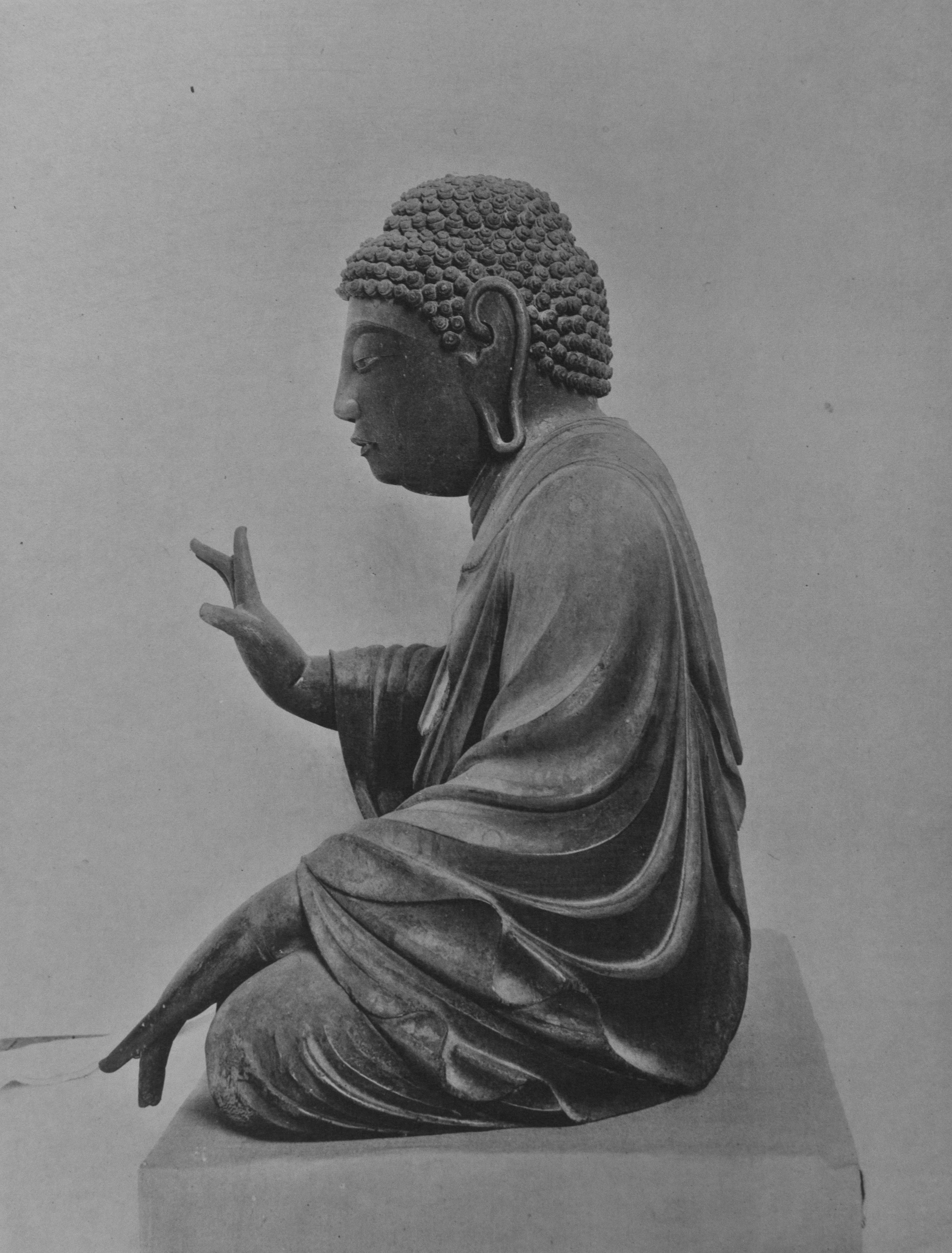 Todaiji, Nara, Japan